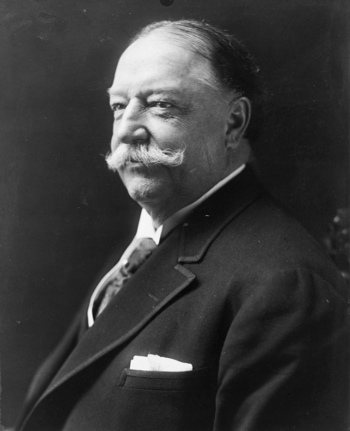 William Howard Taft, head-and-shoulders portrait, facing left (cropped)